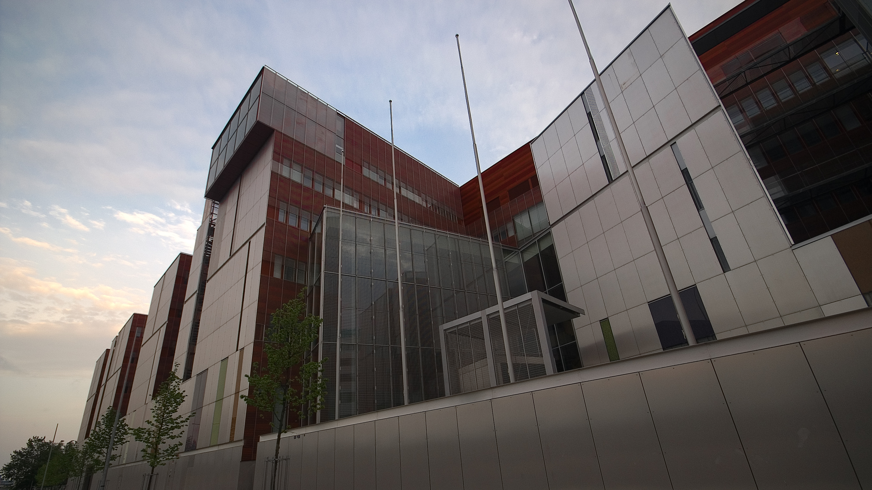 ICT-building. In use by University of Turku, Åbo Akademi, Turku School of Economics and Turku University of Applied Sciences. Architect Ilmari Lahdelma, 2006.